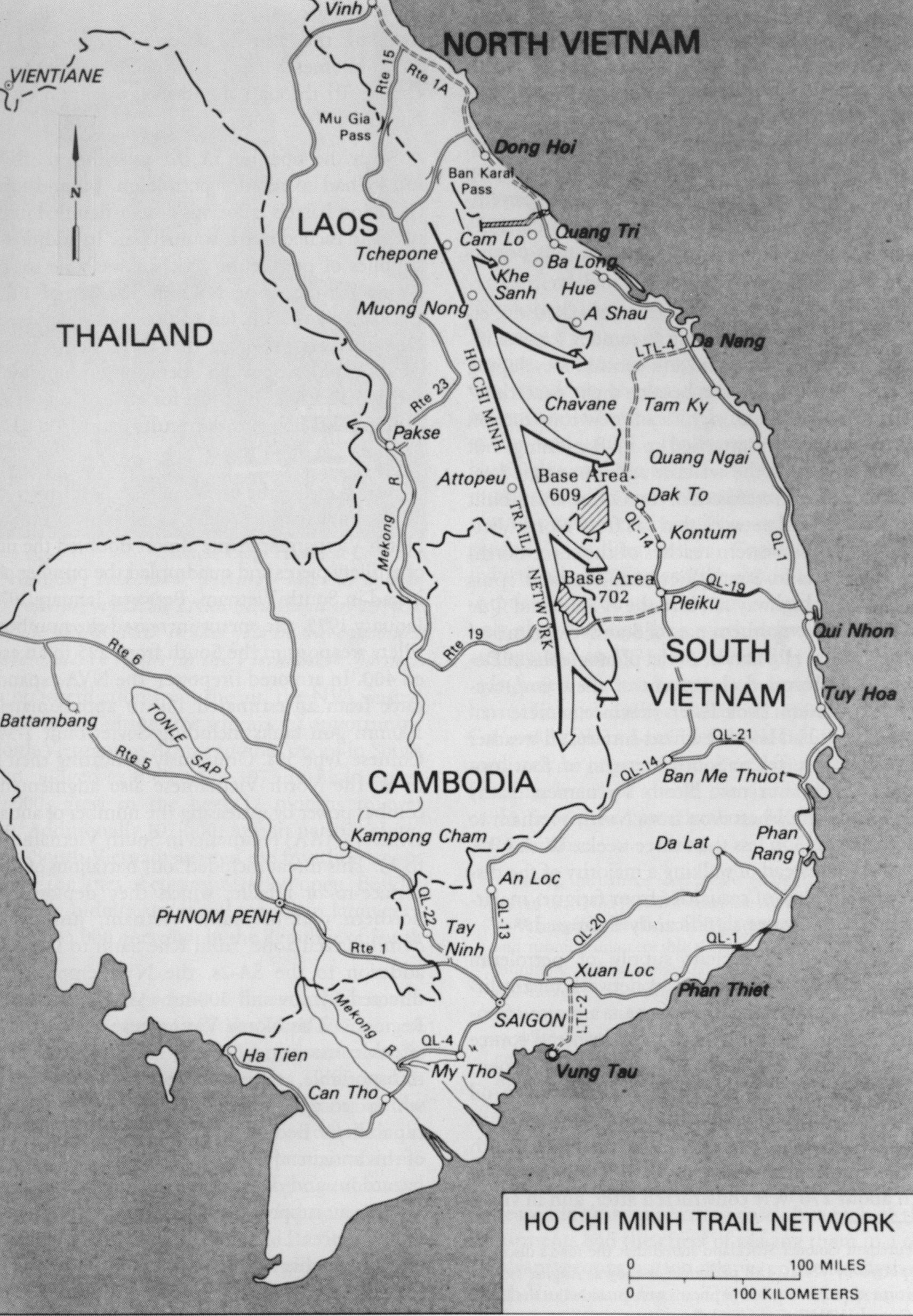 A map of the Ho Chi Minh Trail network.